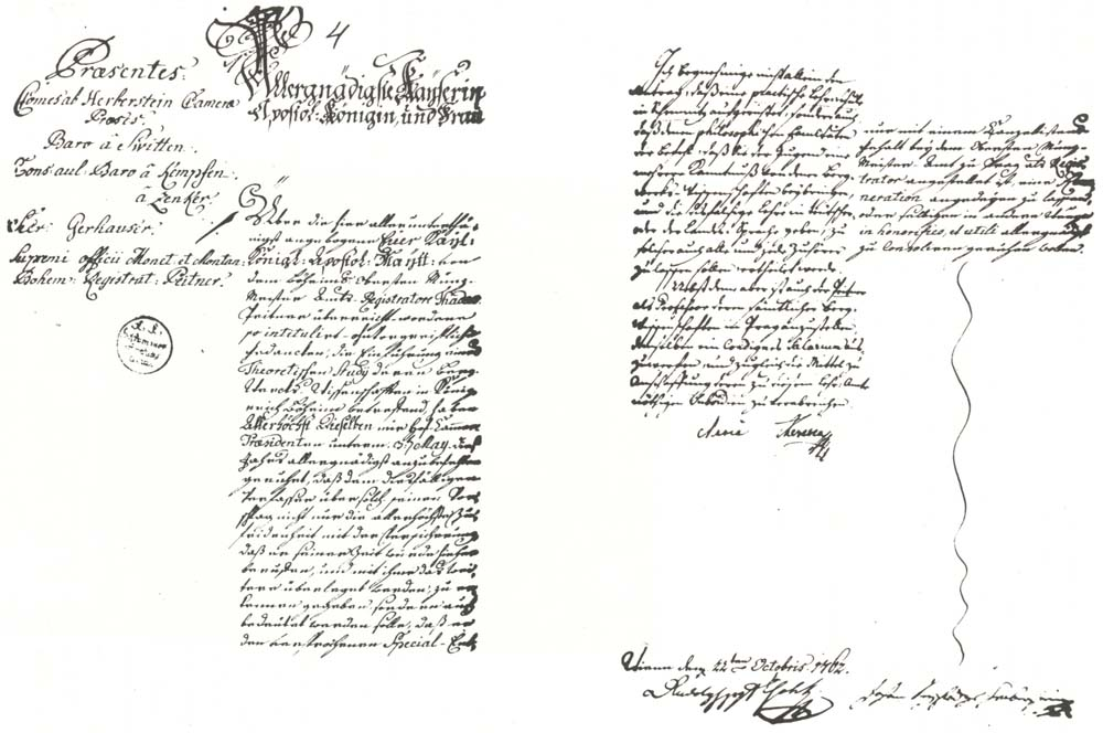 Founder document of the Selmecbánya Academy, 1762